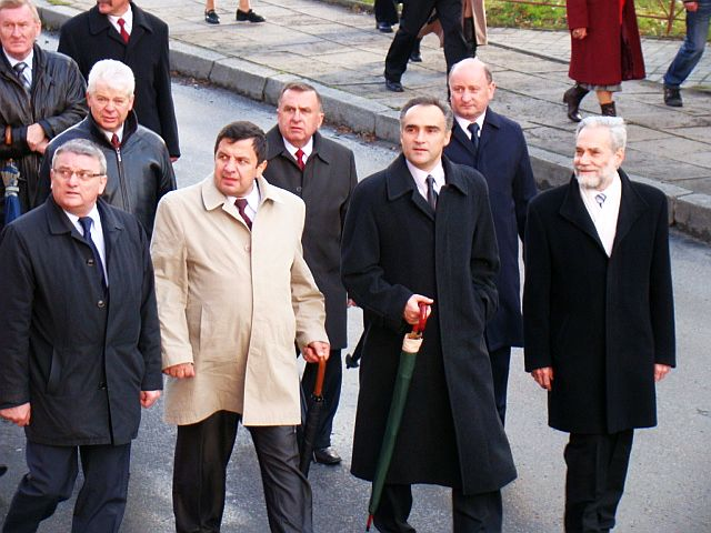 Category:Independence Day 2010 in Sanok